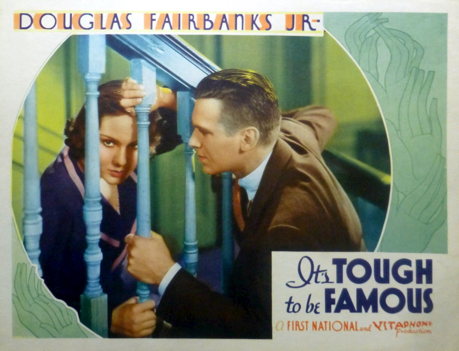 Lobby card from the 1932 film It's Tough to be Famous.